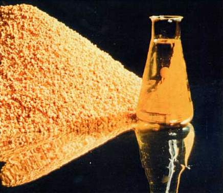 Chemical forms of uranium during conversion: yellowcake and uranyl nitrate solution [UO2(NO3)2].